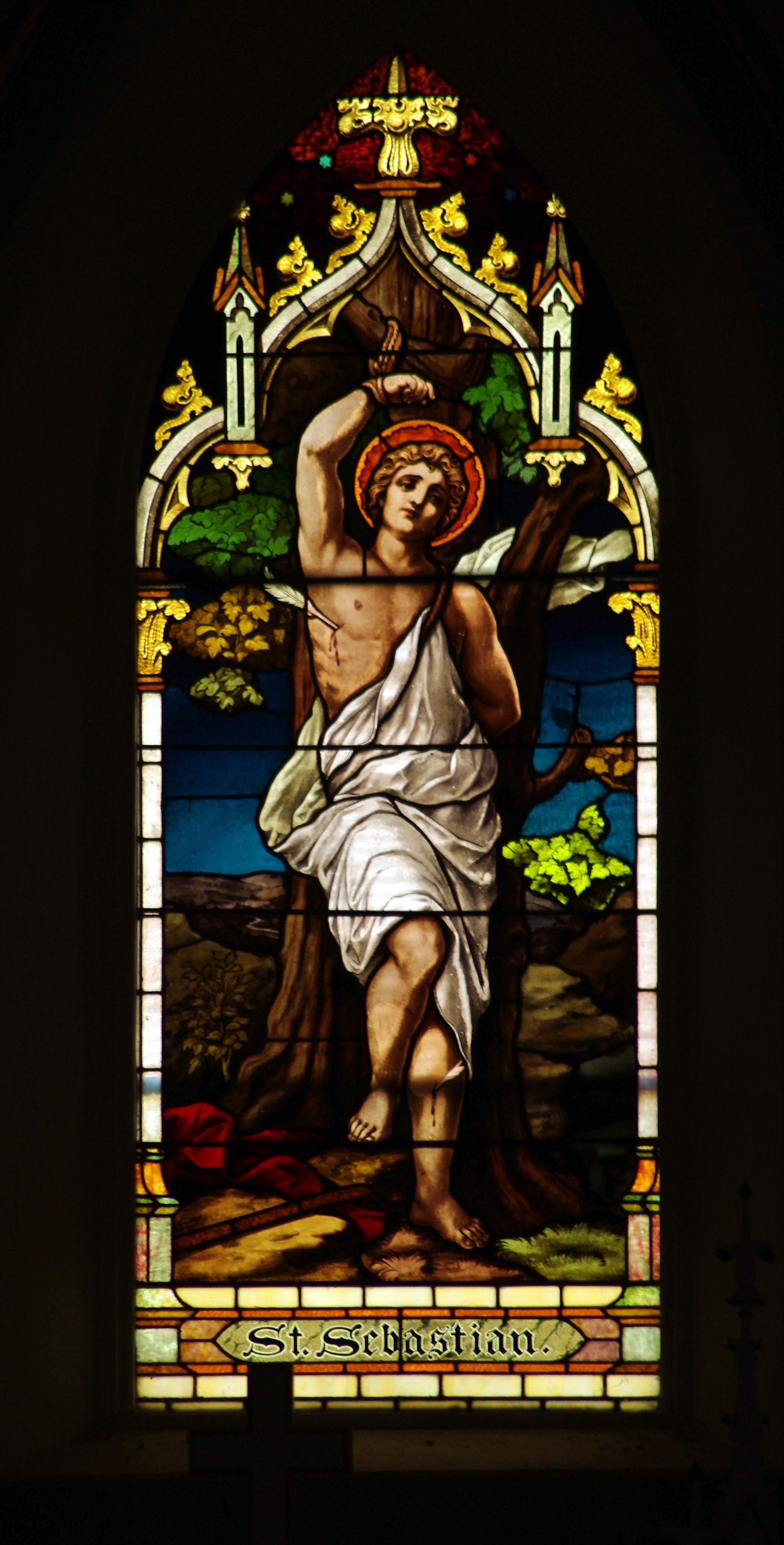 Stained glass window of St. Sebastian at his martyrdom. St. Sebastian Catholic Church in St. Sebastian, Ohio